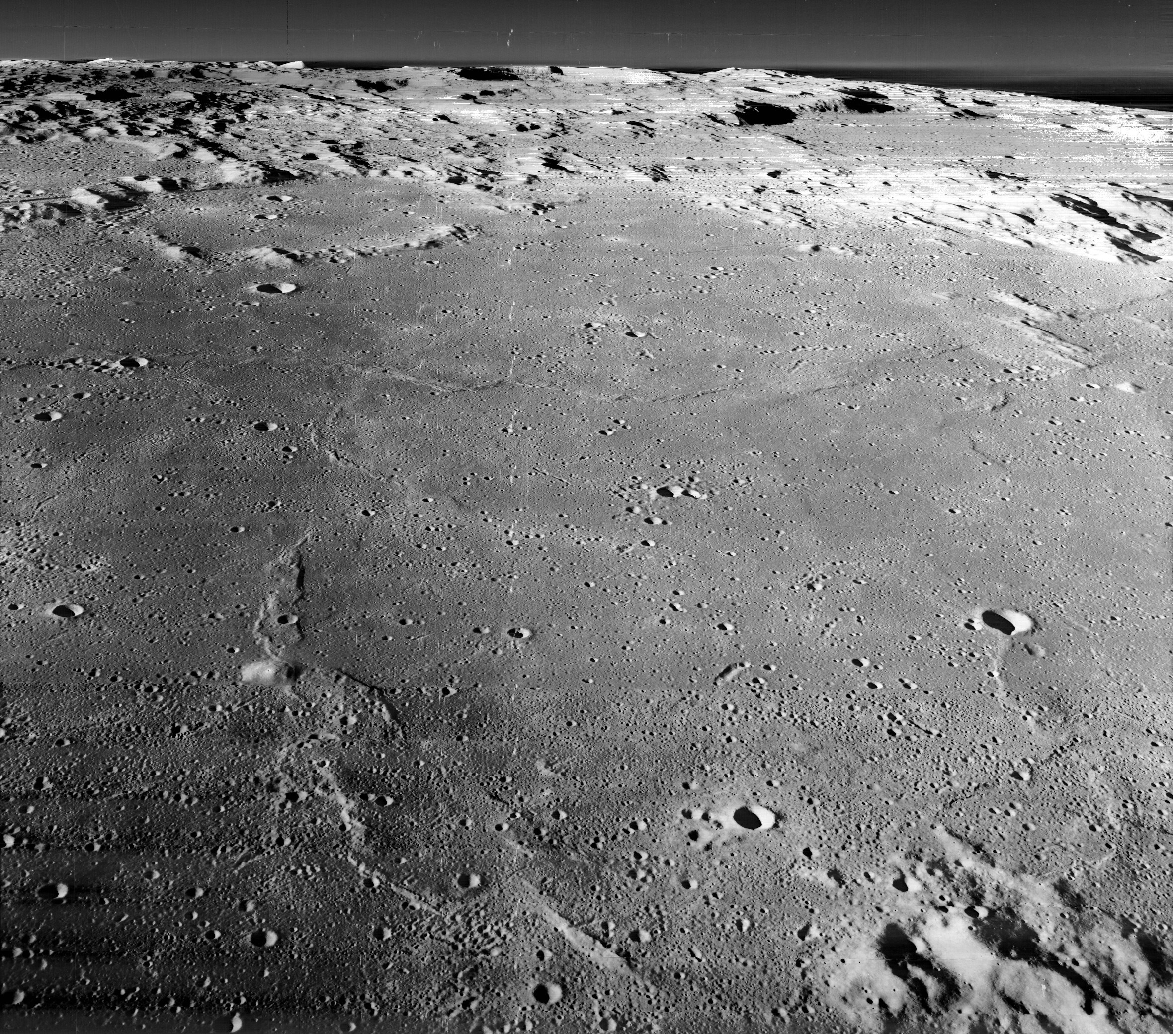 Oblique view of Sinus Medii on the moon, facing south, with Bruce crater at right and Oppolzer crater at left.